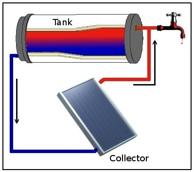 Schematic of a direct passive (thermosiphon) solar water heating system